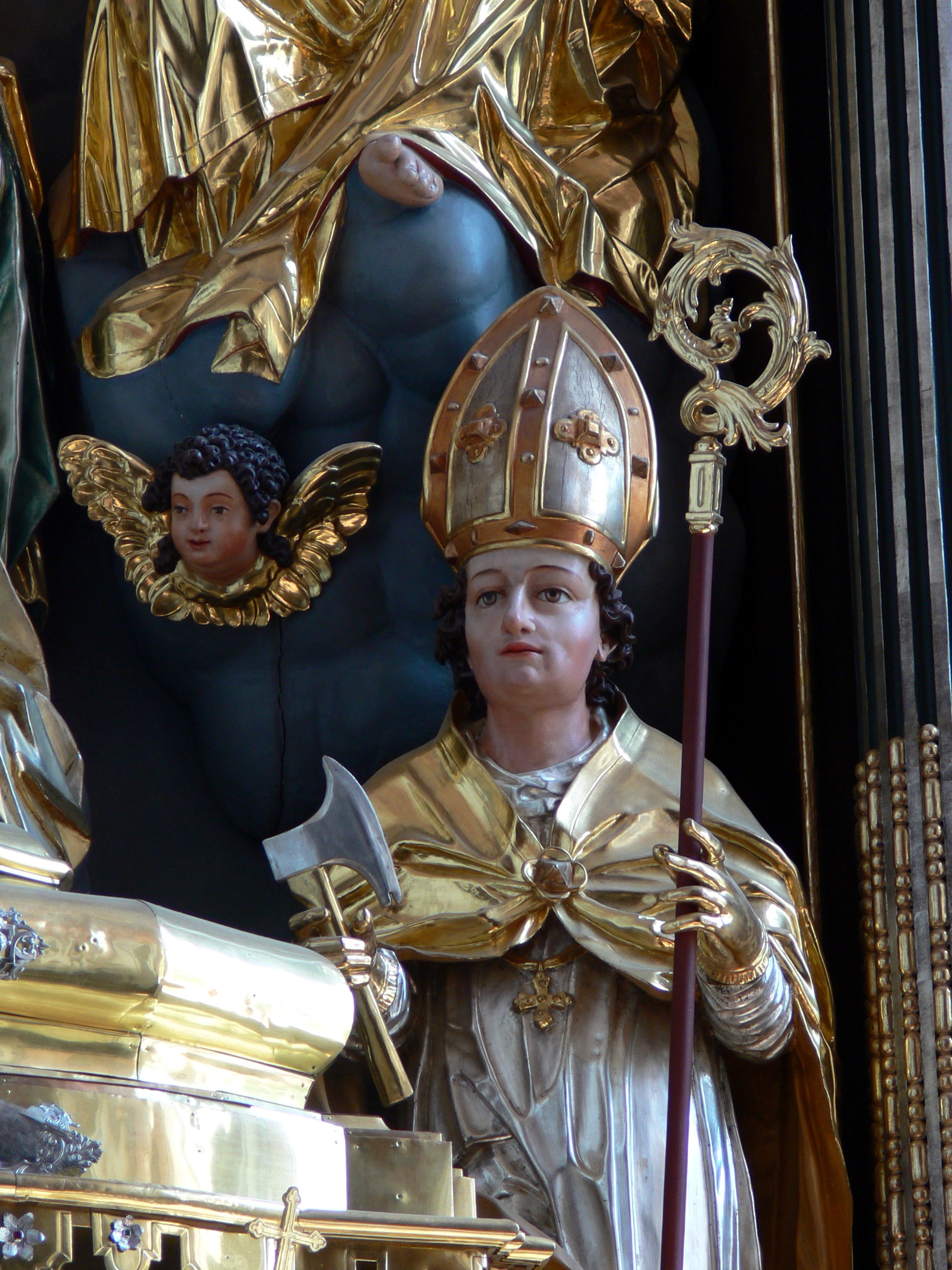 St.Michael parish church in Mondsee ( Upper Austria ). High altar ( 1626 ) - Saint Wolfgang.